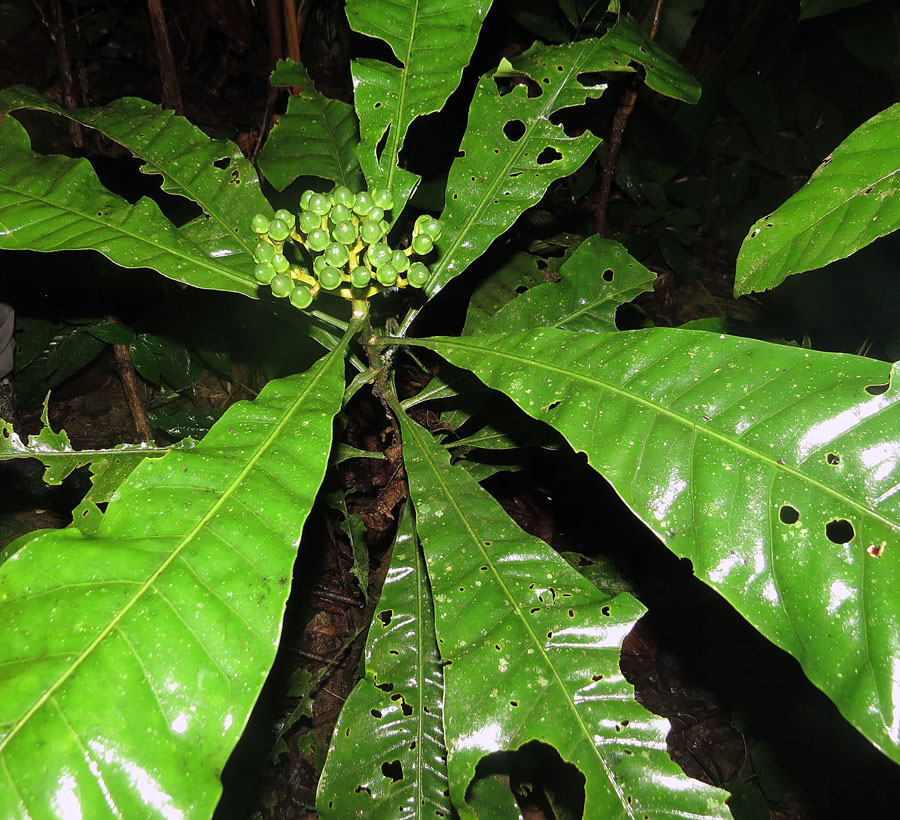 A plant from the western and central Amazon Basin. The roots are used against snakebite. Gentianaceae